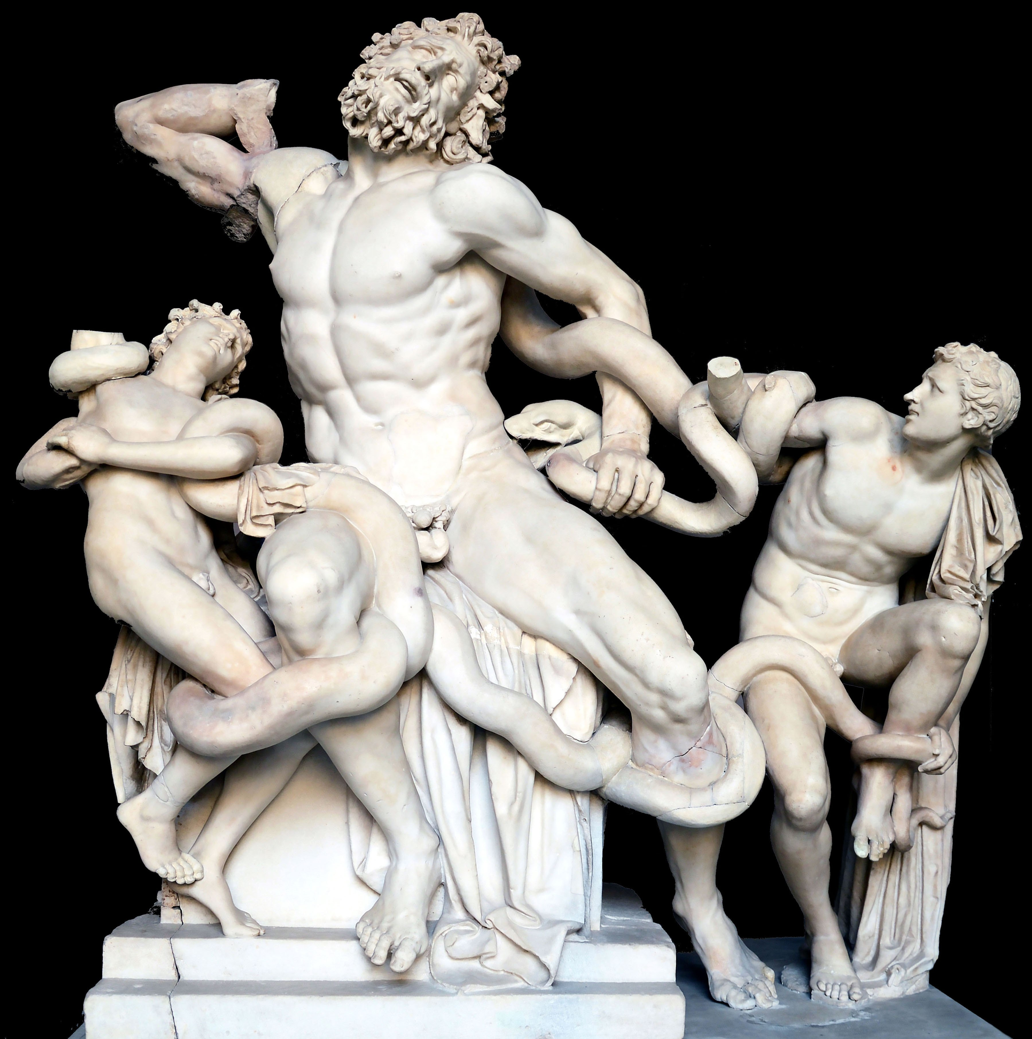 Laocoön and his sons, also known as the Laocoön Group. Marble, copy after an Hellenistic original from ca. 200 BC. Found at the Esquilin in Rome 1506.